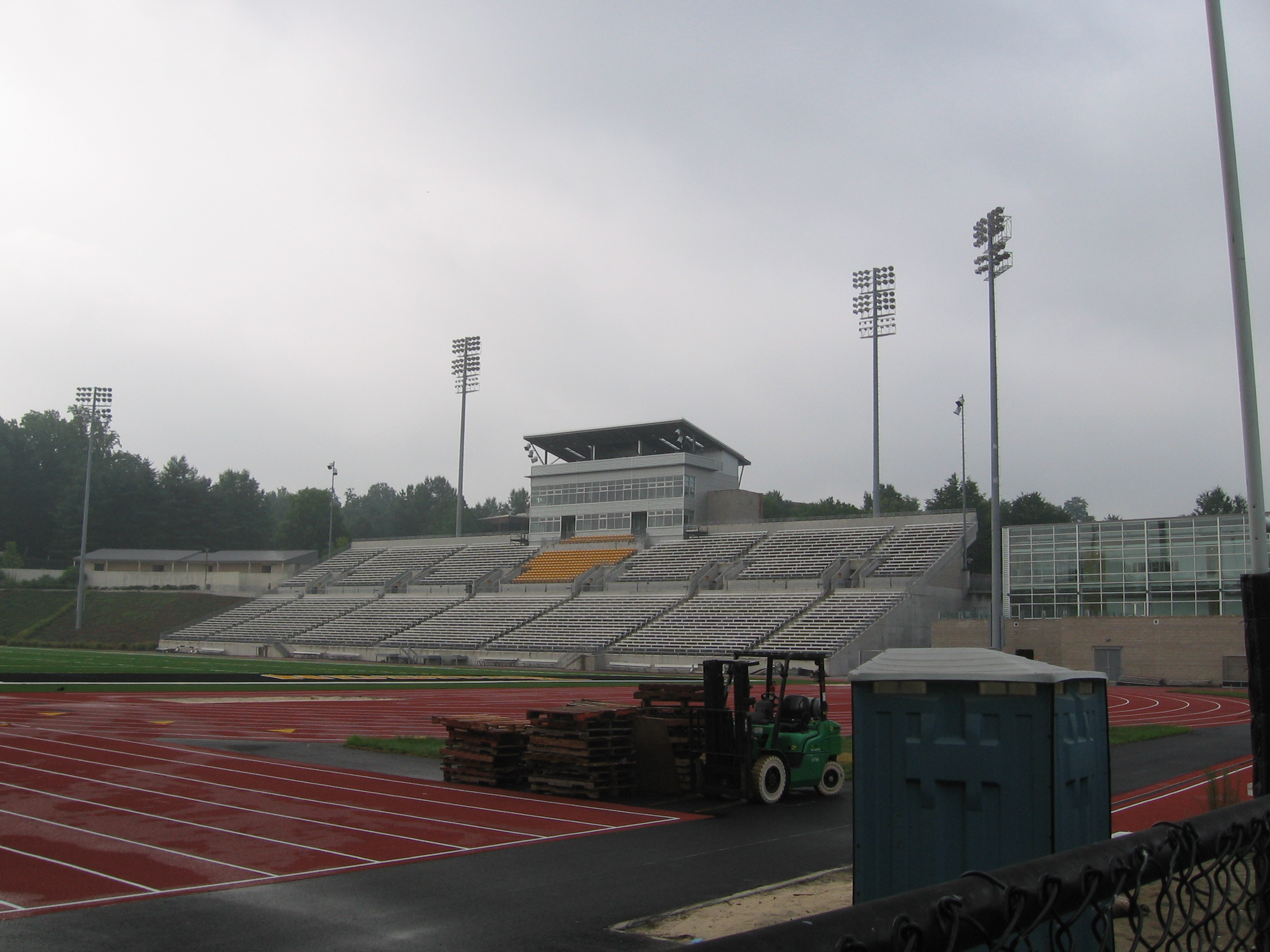 A view of the stands at Johnny Unitas Stadium, home of the Towson University Tigers football and lacrosse teams.